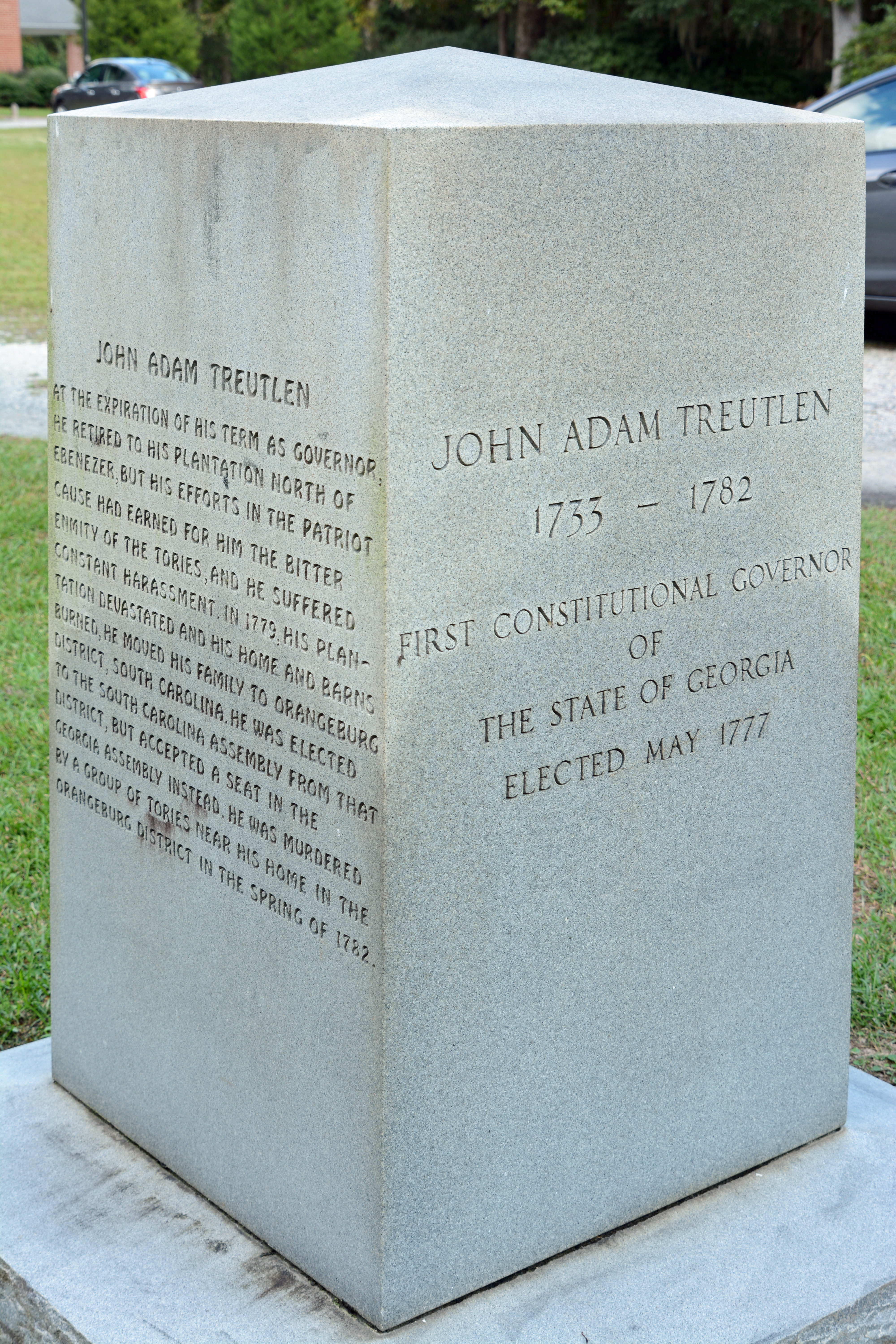 John Treutlen monument, at the old town of Ebenezer, Effingham County, Georgia, US